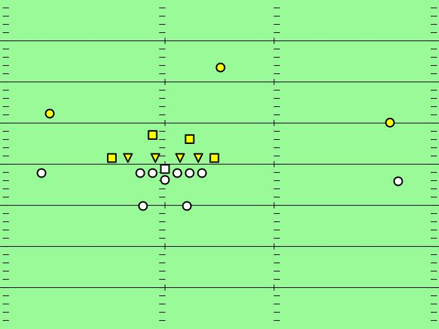 4-4 front, Virgina Tech defense, G front, based on video of Virginia Tech and the Bud Foster et al. presentation to the 76th AFCA convention of 1999.